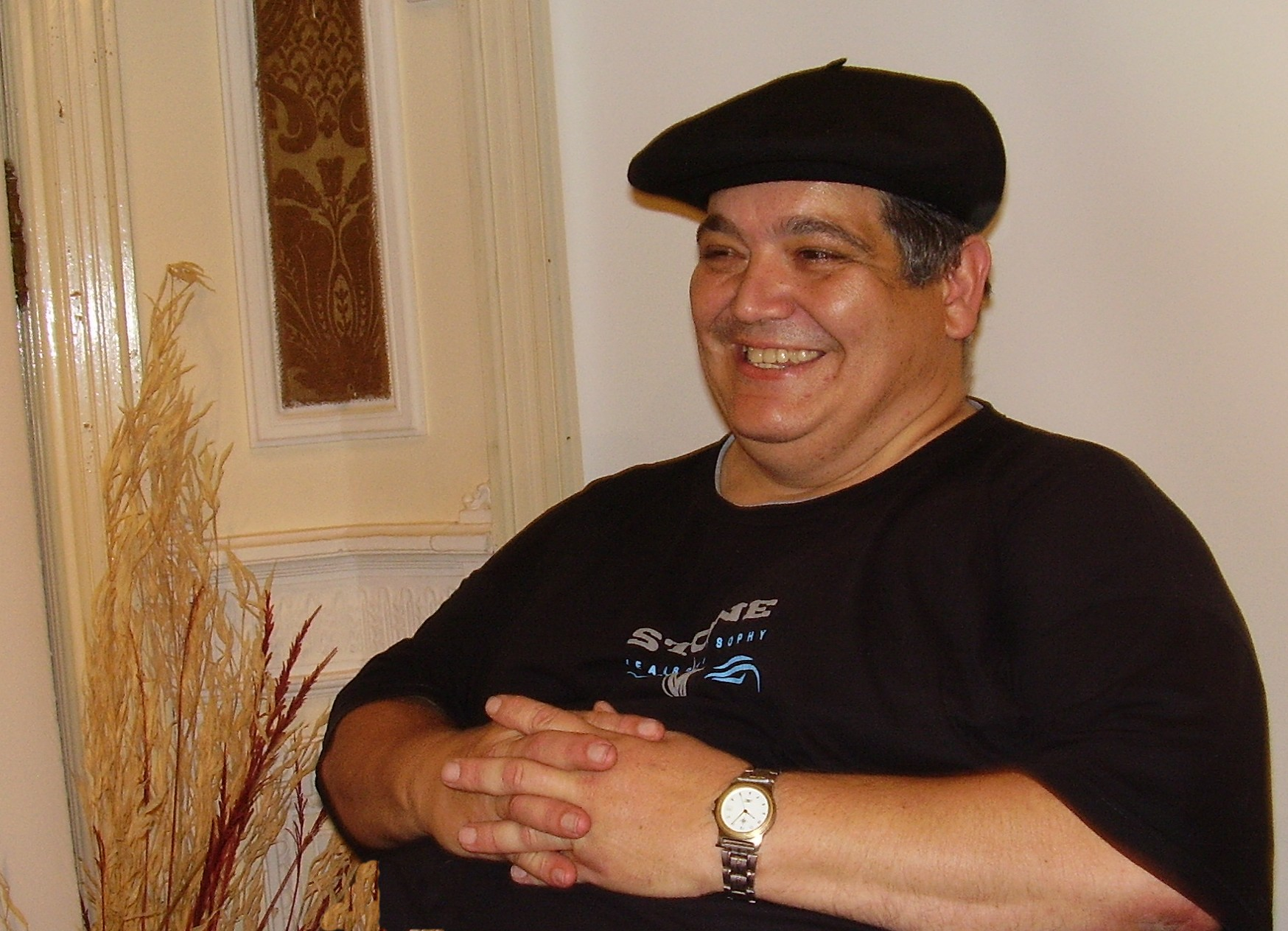 Pic. Portrait of Roberto César Hermida, Argentine Writer